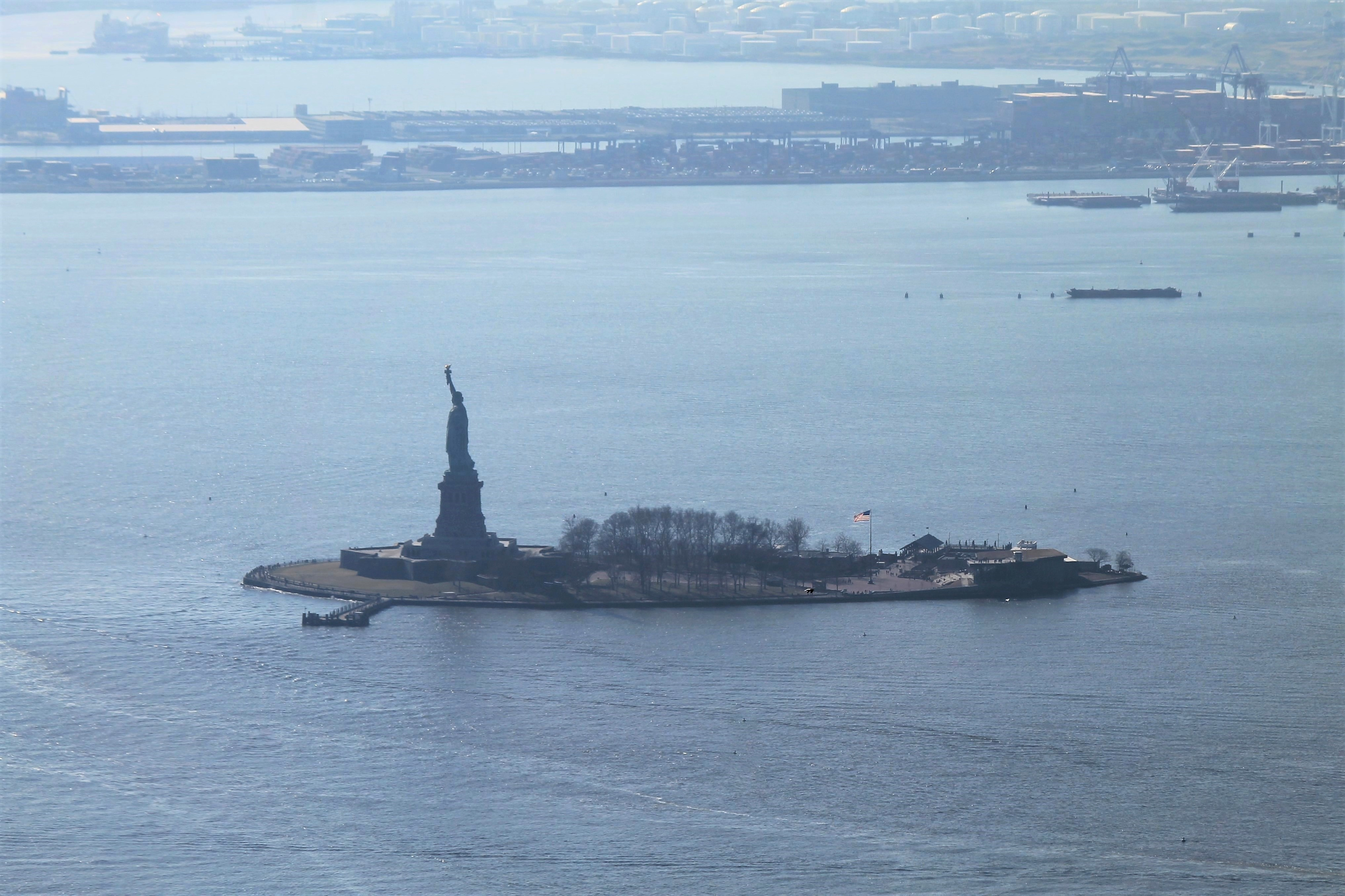 This is a photo of Liberty Island seen from the One World Trade Center Skypod observation deck.